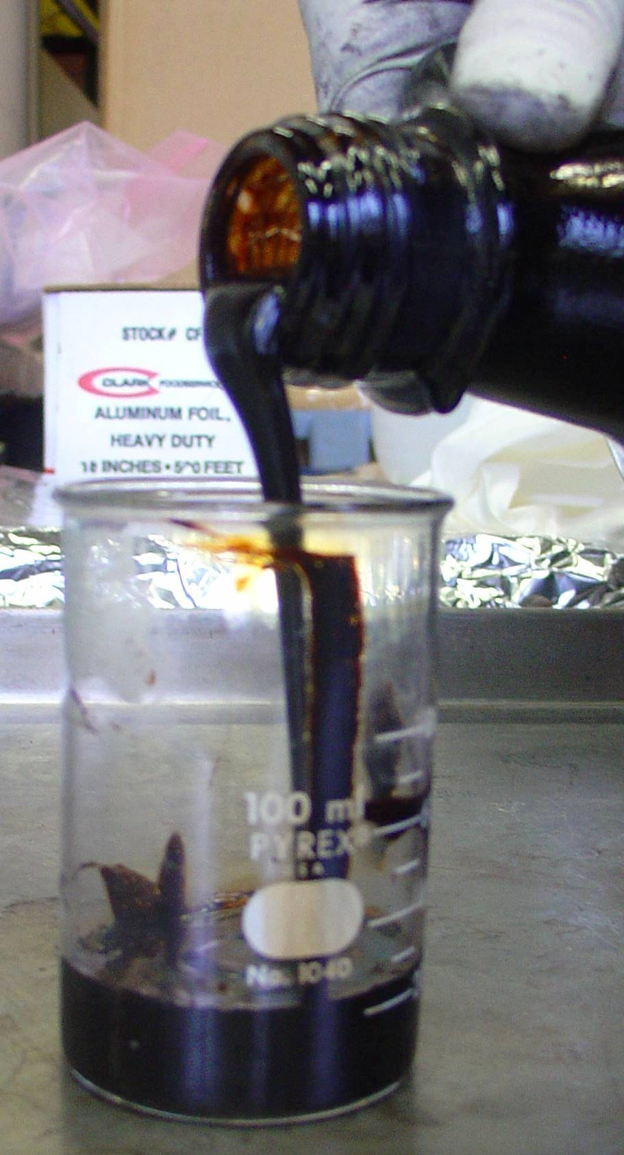 Corn Stover Tar from Pyrolysis by Microwave Heating. Produced at the University of Minnesota.